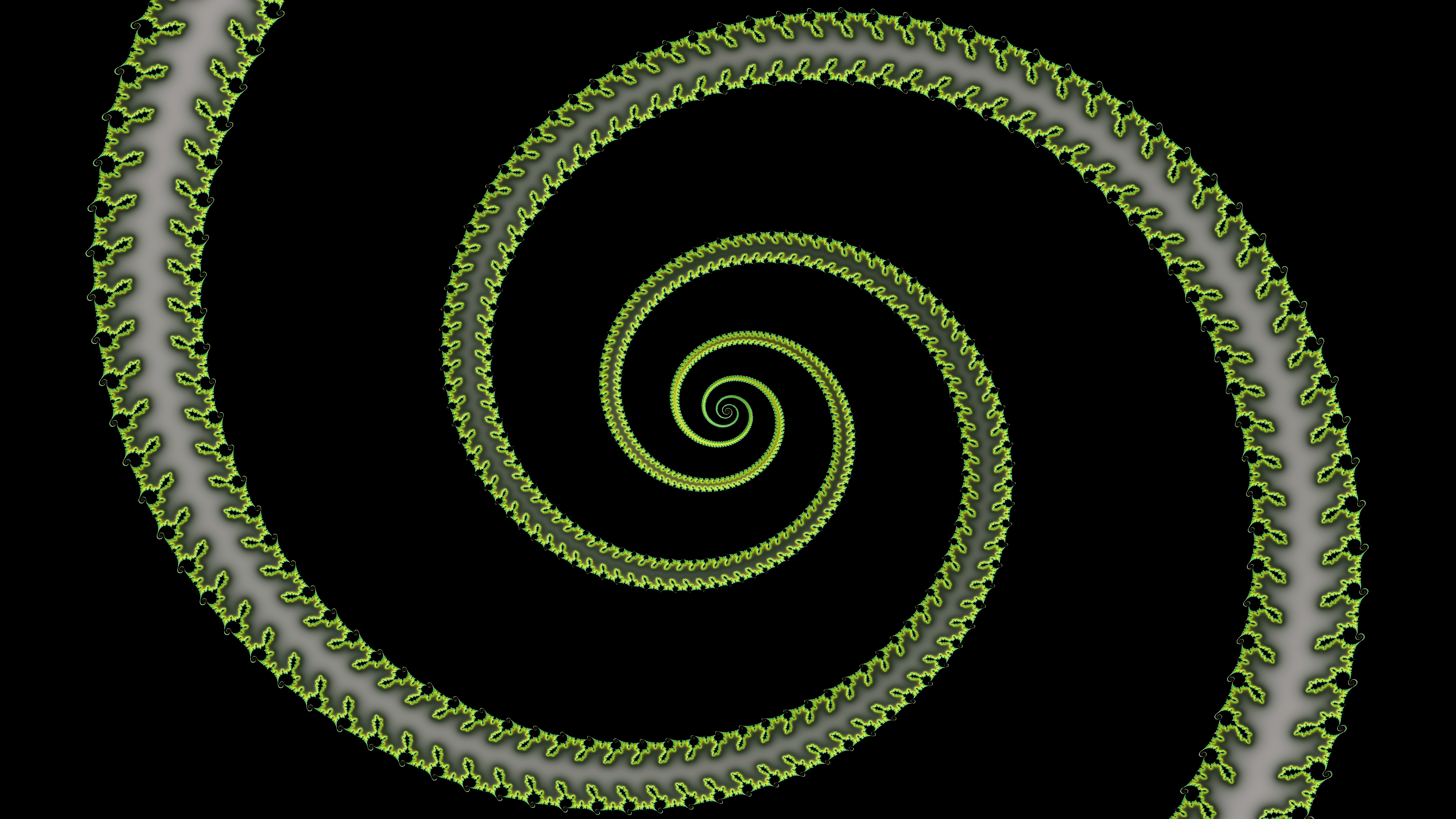 Fractal zoom image. The median value of the file shows the zoom factor. The image is created with a fractal generating program called Kalles Fraktaler 2+. In the Metadata-Information you can get all the information to recreate this fractal detail shown in the image above. The fractal parameters can be varied, depending on the fractal formula.